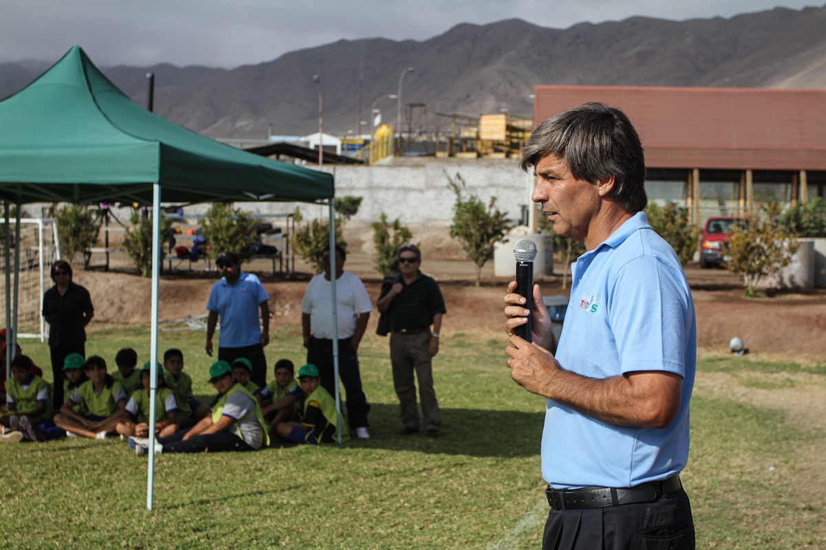 Harold Mayne-Nicholls en Antofagasta, 2012.